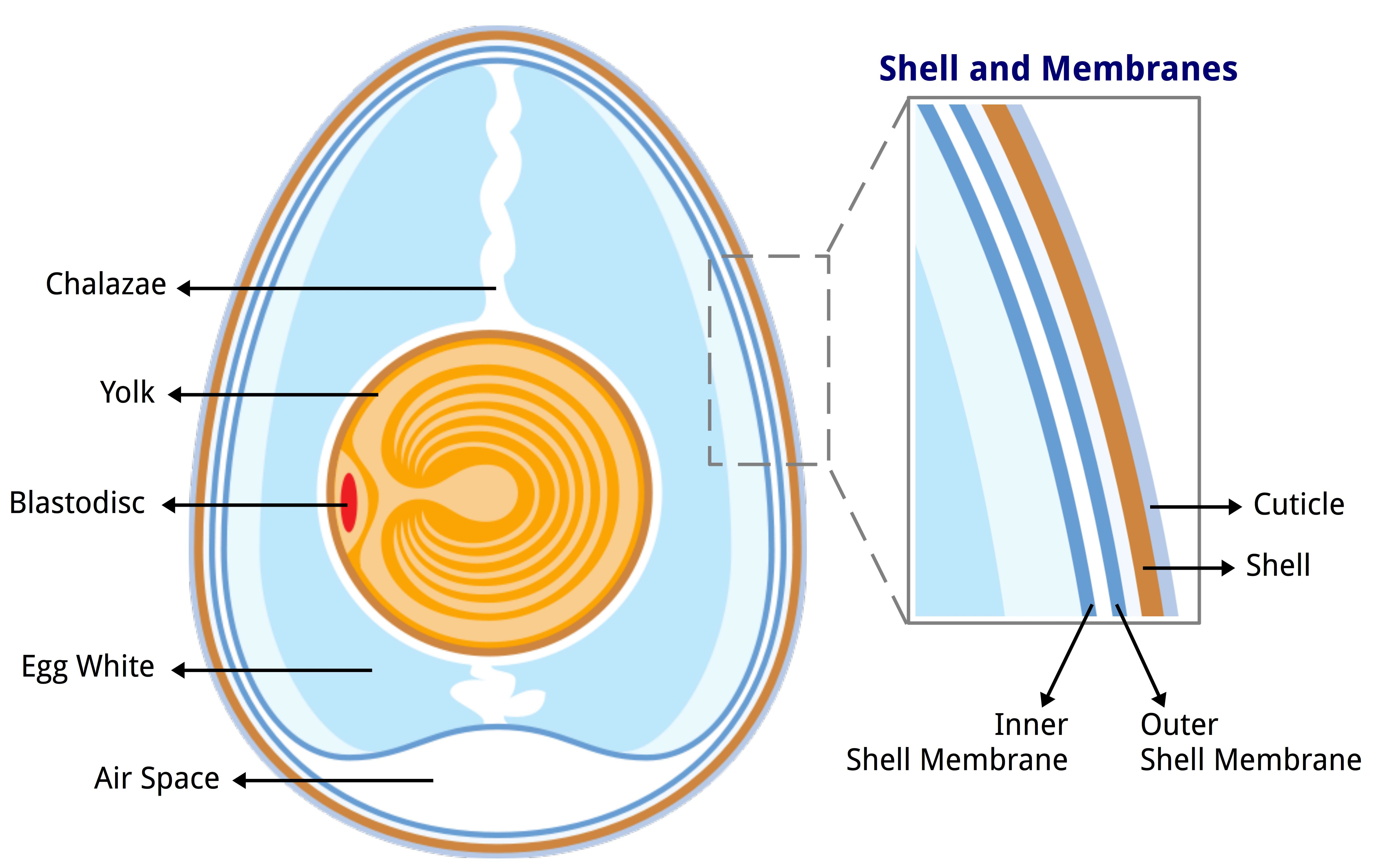 Modified version of Image:Anatomy of an egg.svg